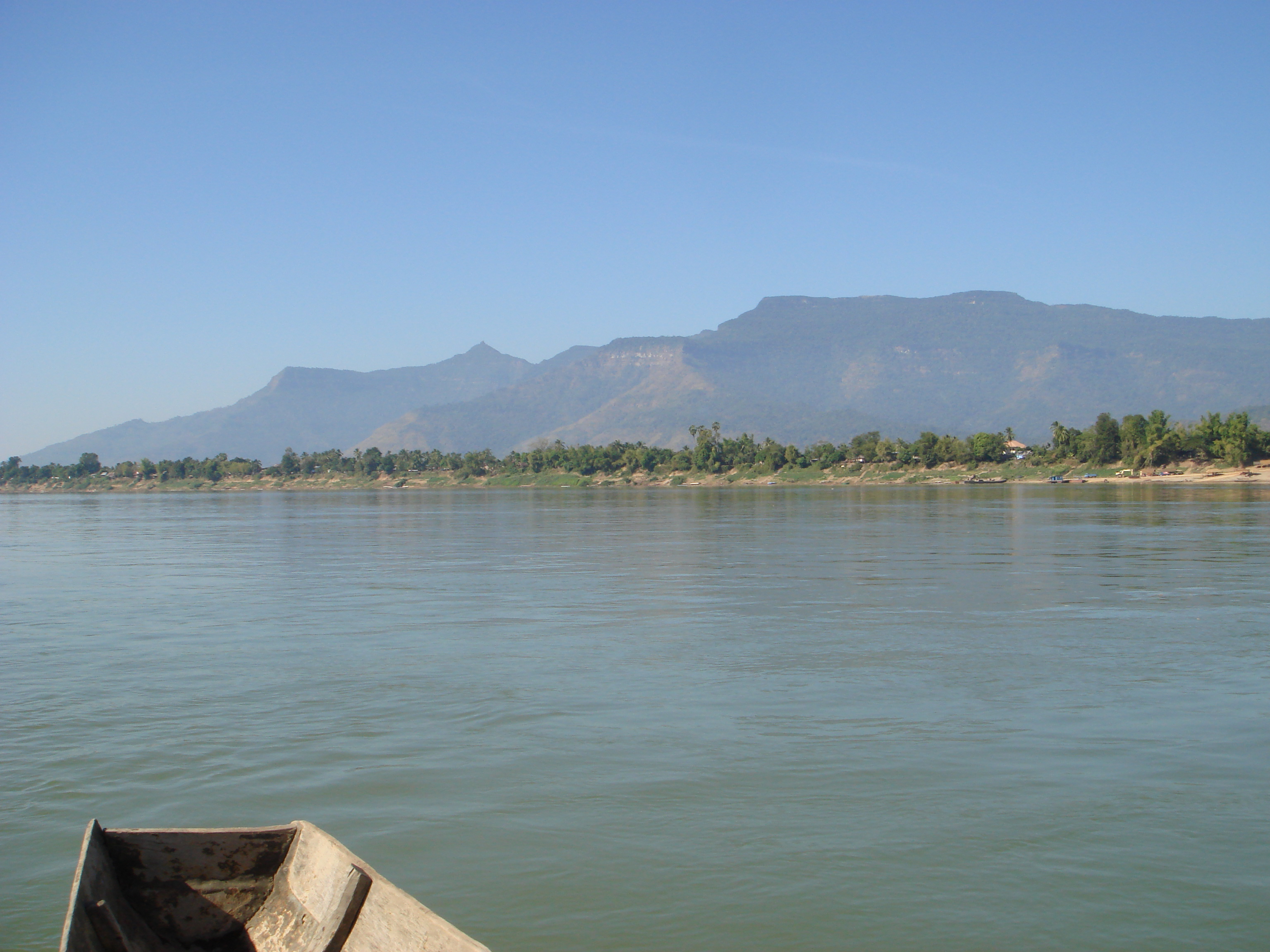 Champasak as seen from Mekong (Laos).